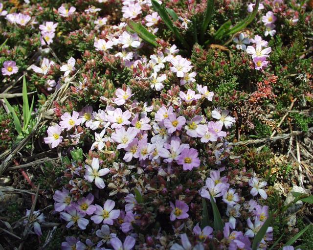 (en) Frankenia laevis , a photography originating of the internet site The accord of the autor, H. Brisse, is here. (fr) Frankenia laevis , une photographie issue du site internet L'accord de l'auteur, H. Brisse, se situe ici.